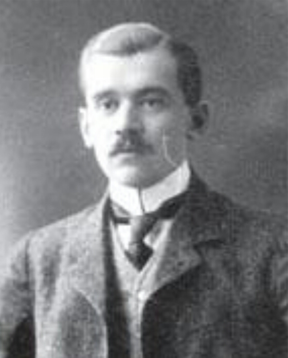 Károly Balogh de Manko Bück was born in Budapest (23 June 1879) and died in Balassagyarmat (24 April 1944 was a Minister Counsellor, literary historian and translator of the Austro-Hungarian Government in Fiume (modern Croatia) and later at the Hungarian Ministry of Interior.